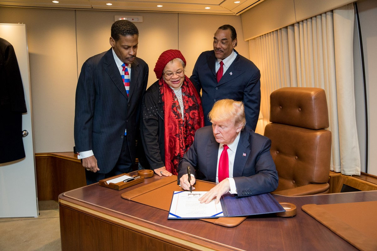 President Donald J. Trump with Alved King, center, niece of slain Civil Rights leader Dr. Martin King Jr., and joined by Issac Newton Farris Jr., left, nephew of Dr. King, and Bruce Levell of the National Diversity Coaliton for Trump, right, signs, the Martin Luther King Jr. National Historical Park Act, Monday, Jan. 8, 2018, aboard Air Force One in Atlanta, Ga.